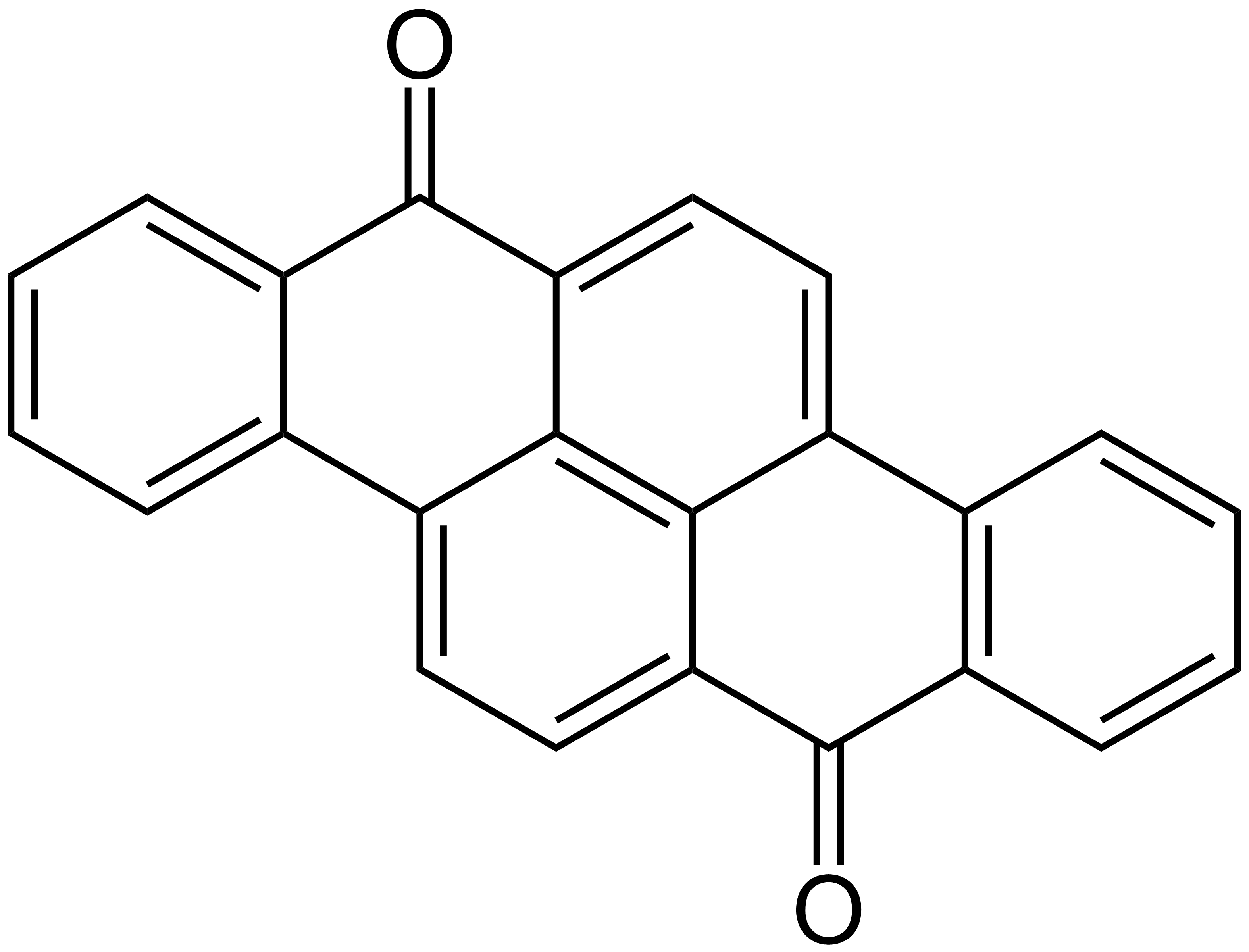 Chemical structure of Vat Yellow 4